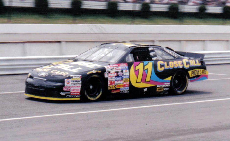 NASCAR driver Brett Bodine in his self owned #11 at Pocono in 1997. One career win driving the 26 in 1990.